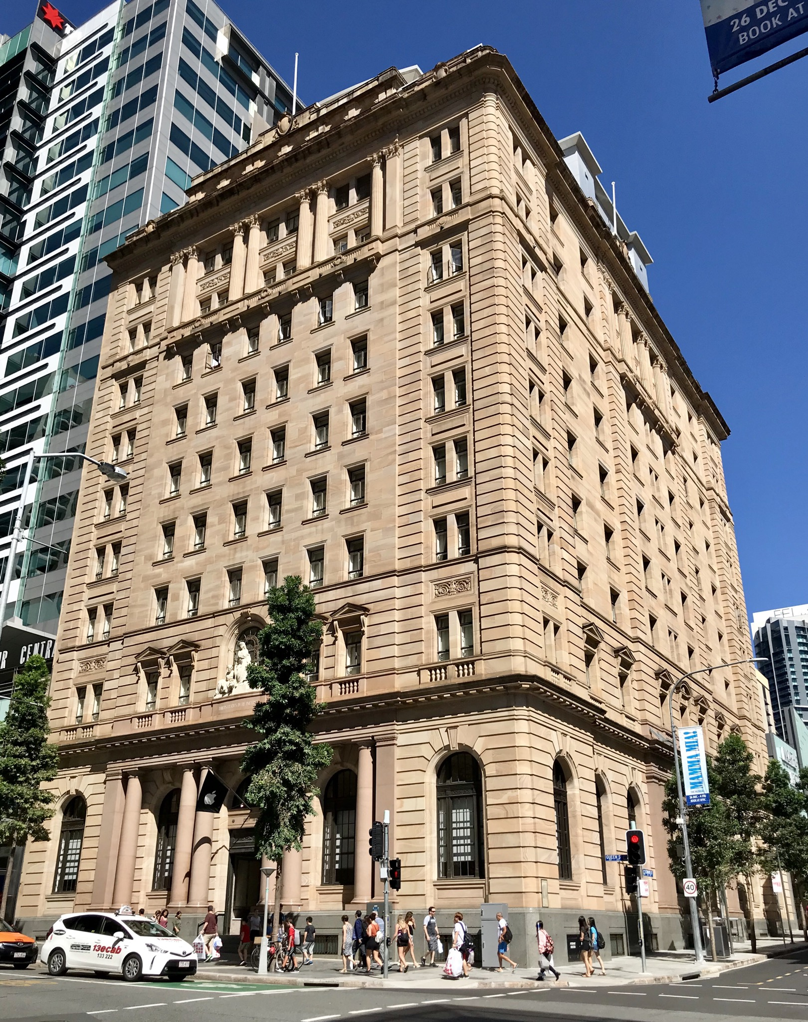 MacArthur Chambers, Brisbane, Queensland